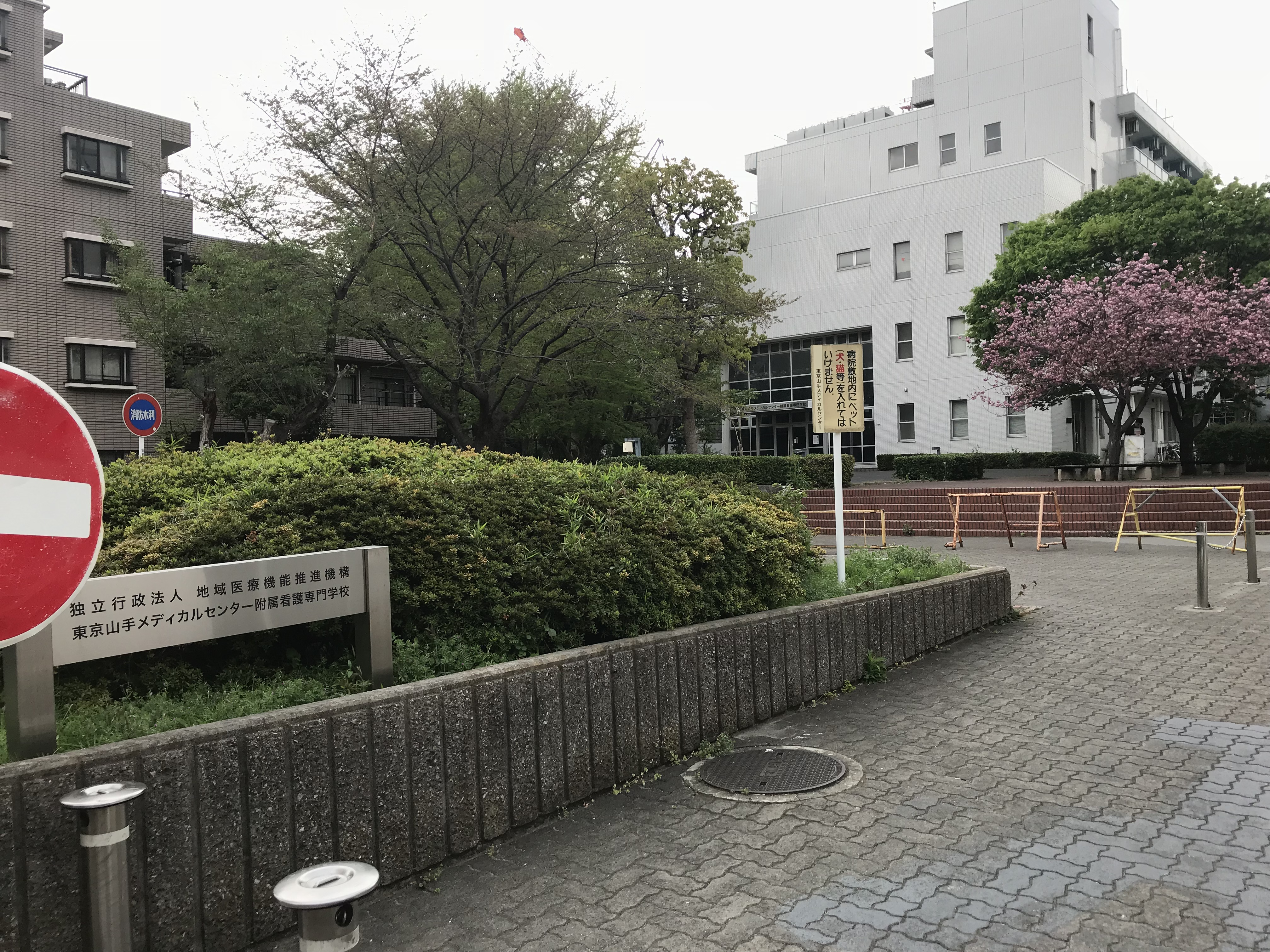 Tokyo Yamate Medical Center Affiliated Nursing School